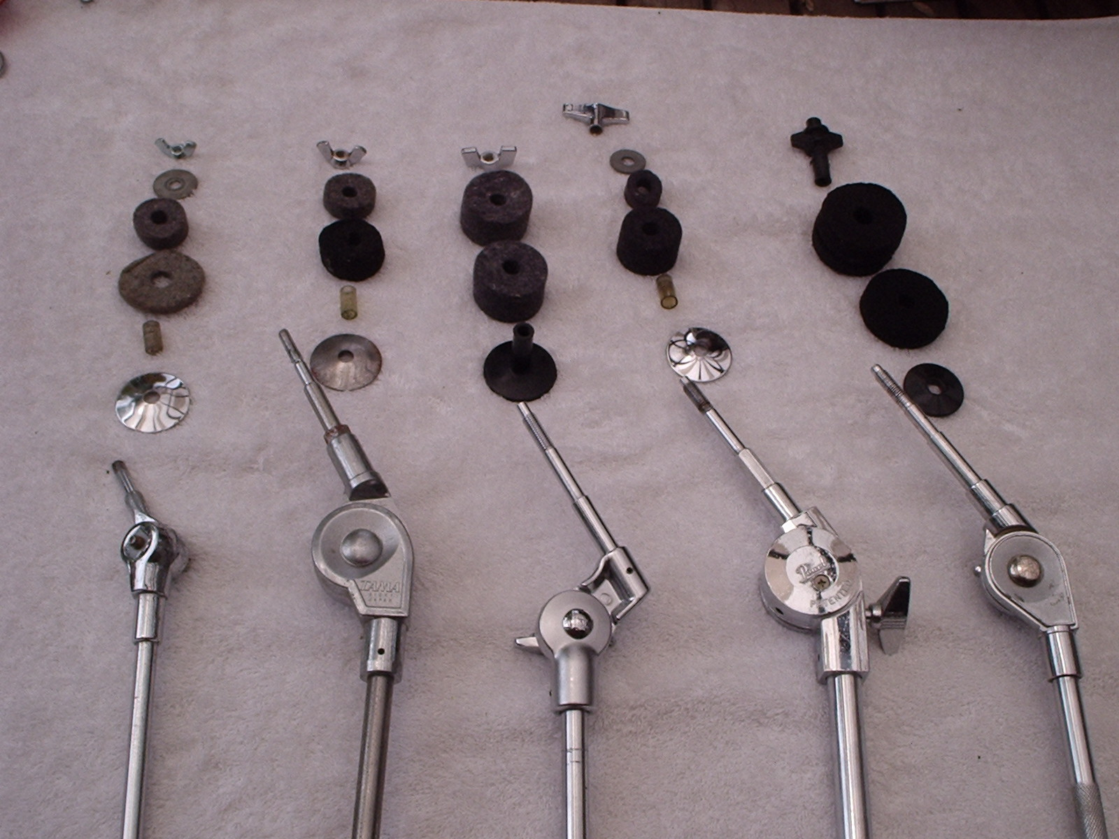 Five exploded views of cymbal stand tops: Steel dome washer, plasic tube, felts, top washer, 1/4" BSW nut; Steel dome washer, plastic tube, felts, 6M nut; Plastic washer/tube combination, felts, 6M nut; Steel dome washer, plastic tube, felts, washer, 8M nut; Plastic dome washer, felts, plastic tube/nut combination. See also File:Cymbal stand buttons and bolts.JPG